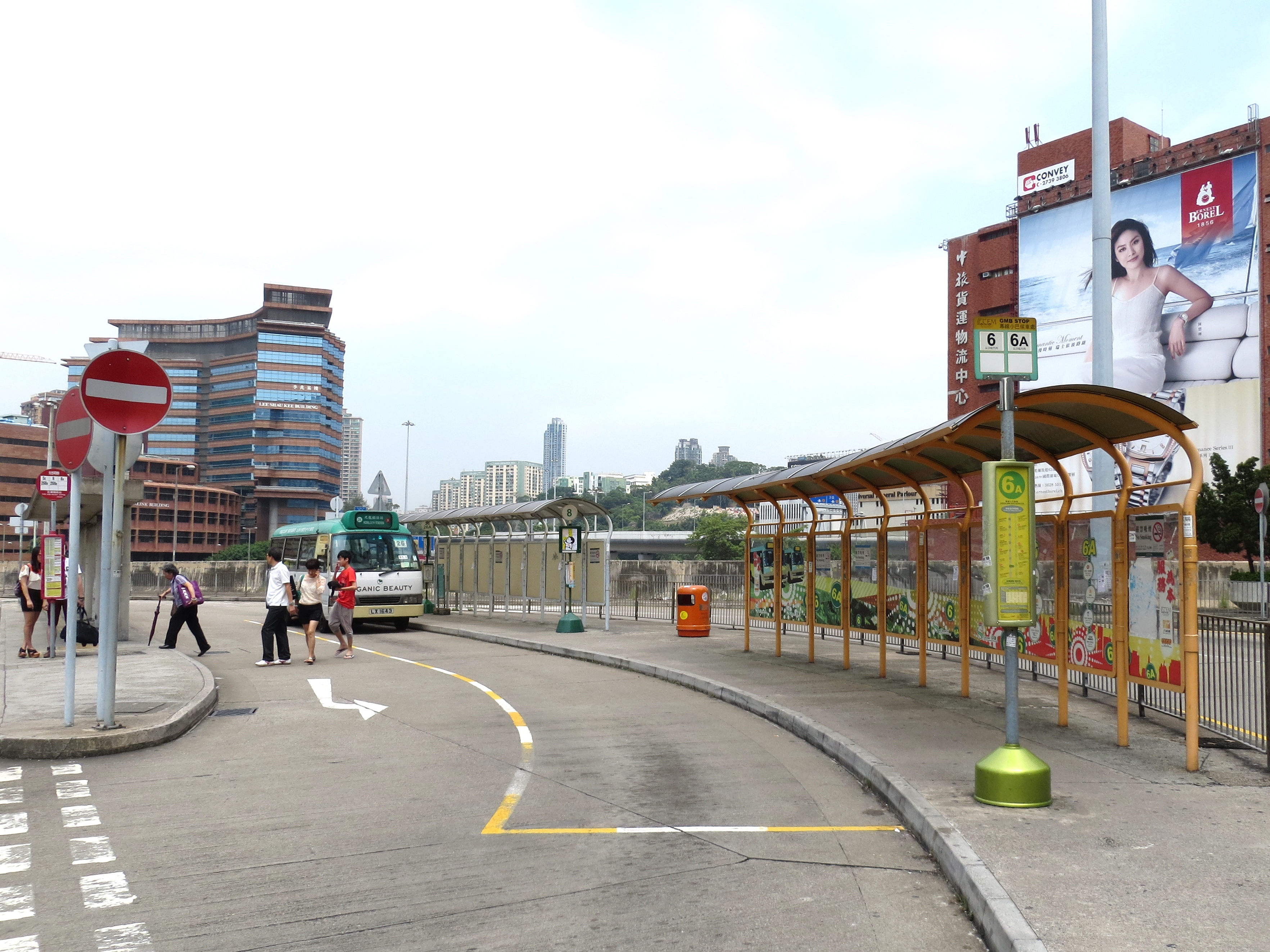 Public light bus terminus at the Hung Hom Station Public Transport Interchange, Kowloon, Hong Kong.